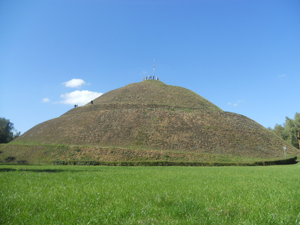 M. Józef Piłsudski Mound on the Sowiniec Hill in Kraków.